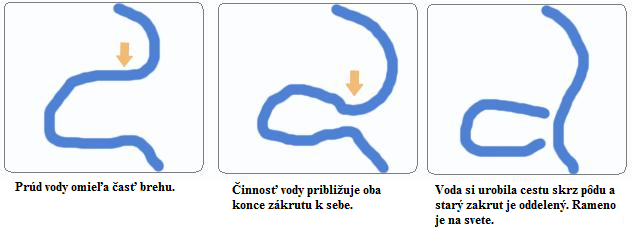 river meander dynamics